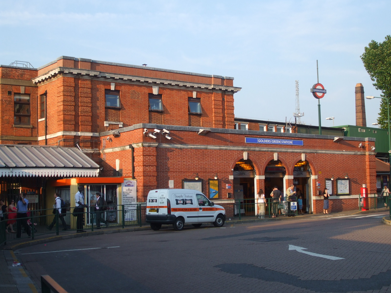 Golders Green tube station building, taken from the bus stand.